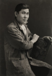 Portrait of Soichi Sunami